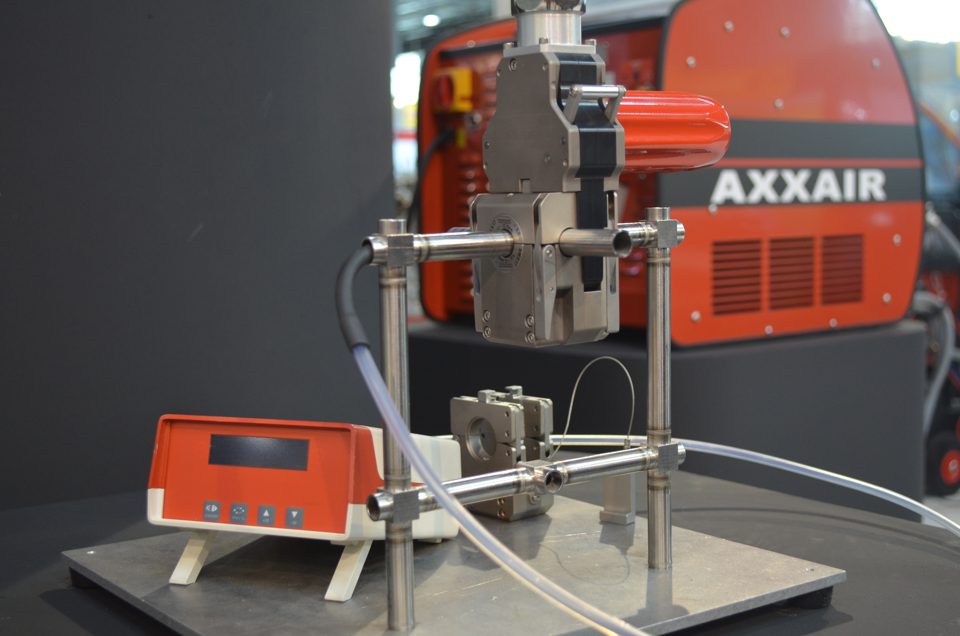 Orbital TIG Welding - Autogenous Welding - Micro-fit High Purity Tubing